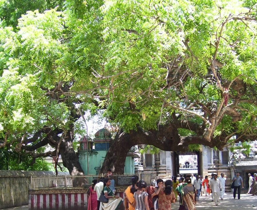 VaidheeshwaranTemple Prakash